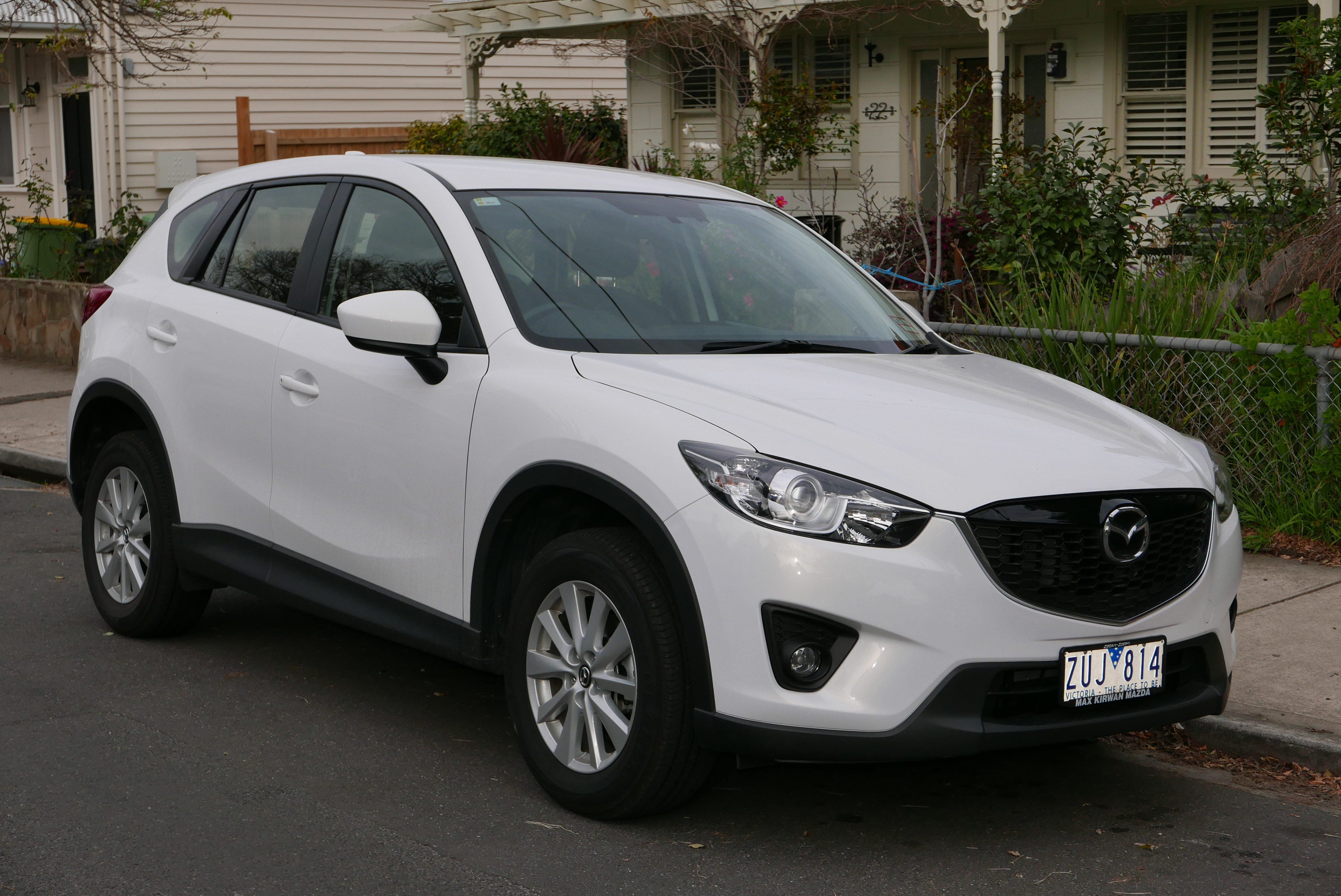 2013 Mazda CX-5 (KE MY13) Maxx Sport AWD wagon. Photographed in Northcote, Victoria, Australia. Vehicle registration enquiry resultsJurisdictionVictoriaRegistrationZUJ814Chassis codeJM0KE103100207742Engine codePY30249998Compliance date2013-05Year of manufacture2013